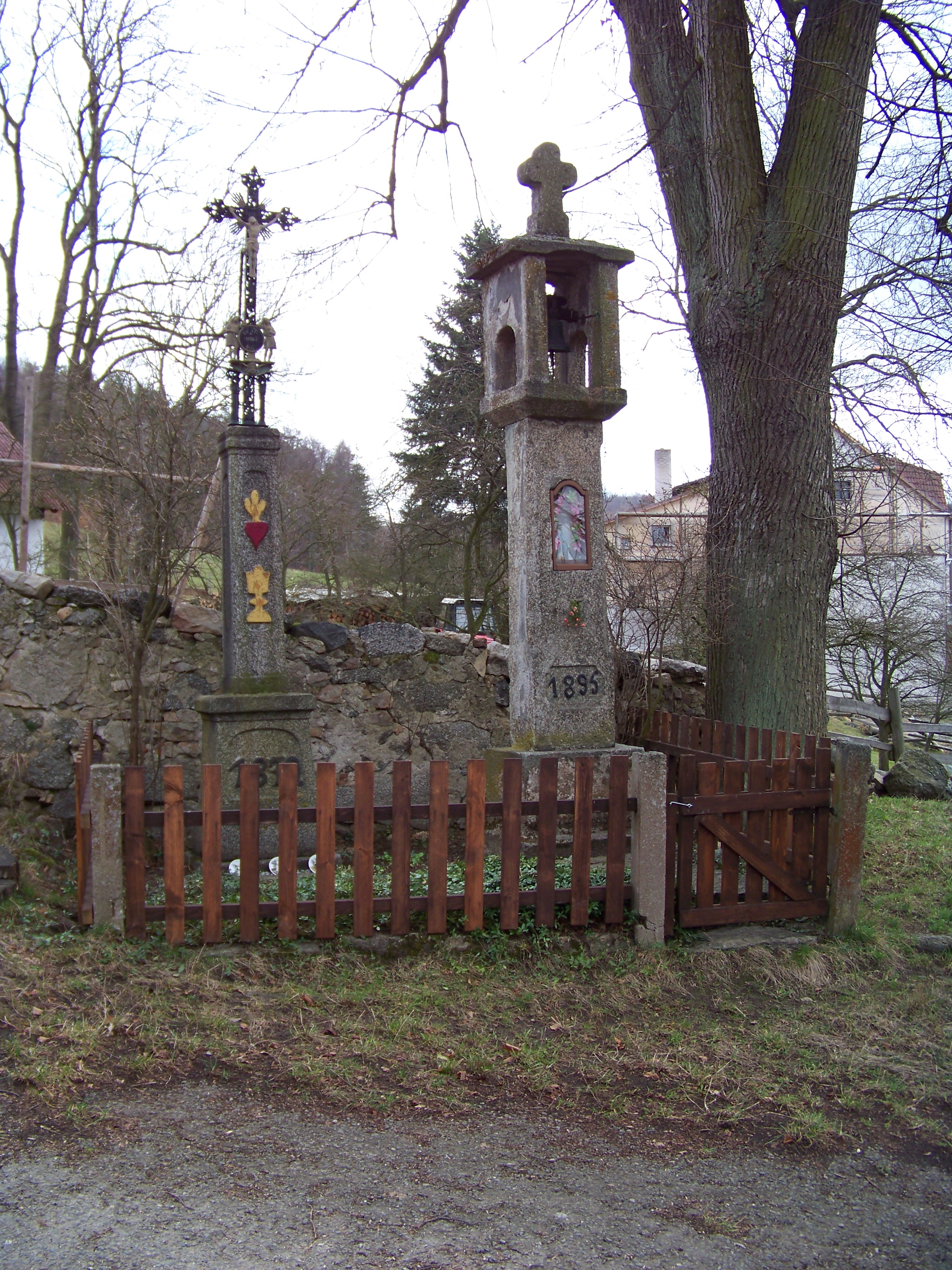 Sedlec-Prčice-Myslkov, Příbram District, Central Bohemian Region, the Czech Republic. Crosses and a bell tower.